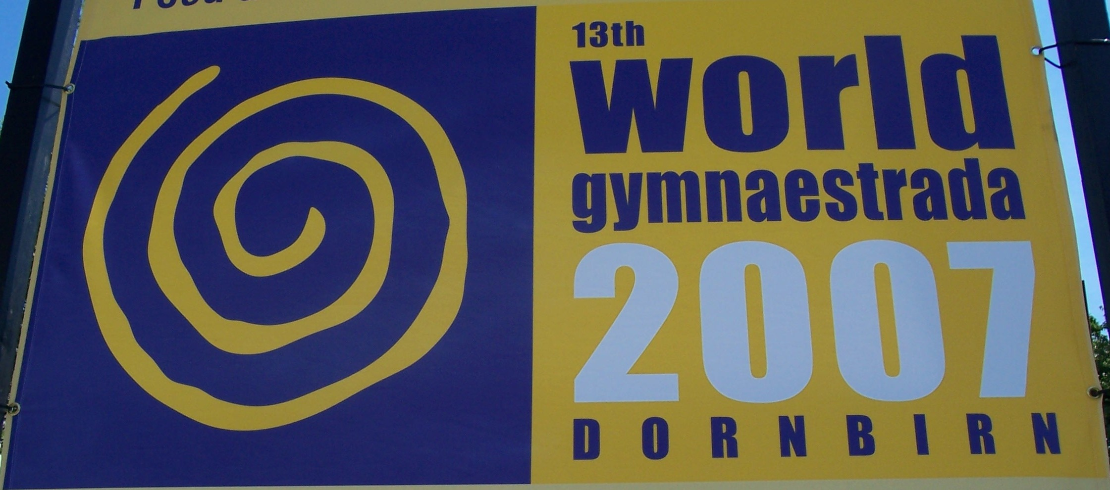 The logo of the 13th world gymnaestrada 2007 in Dornbirn, Austria.